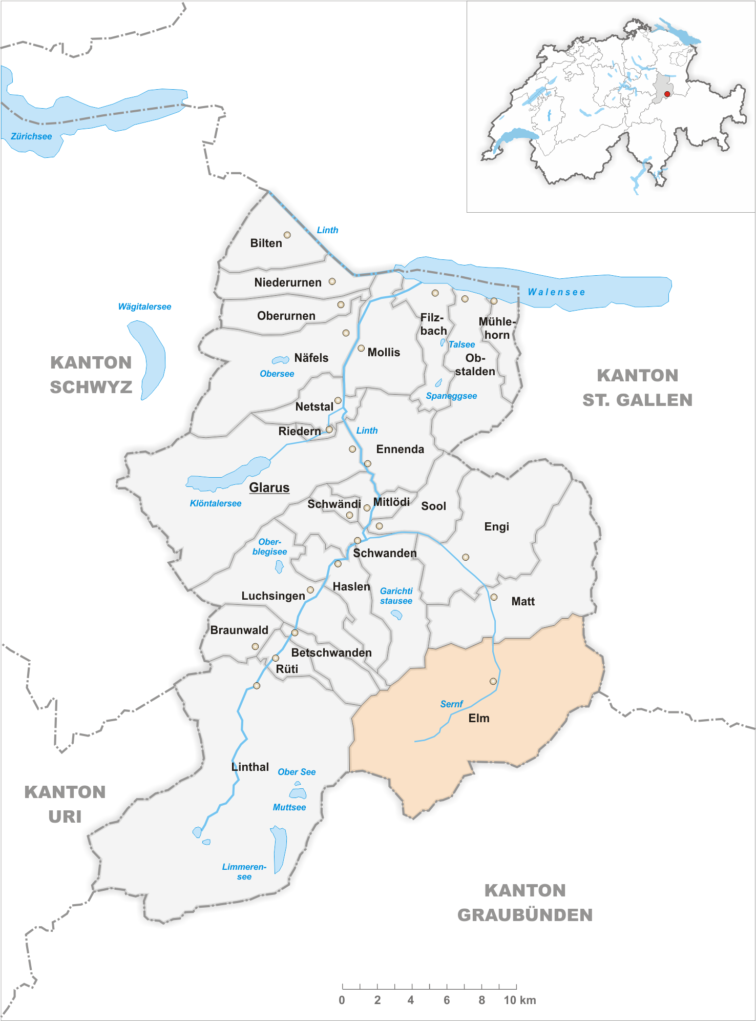 Municipality Elm